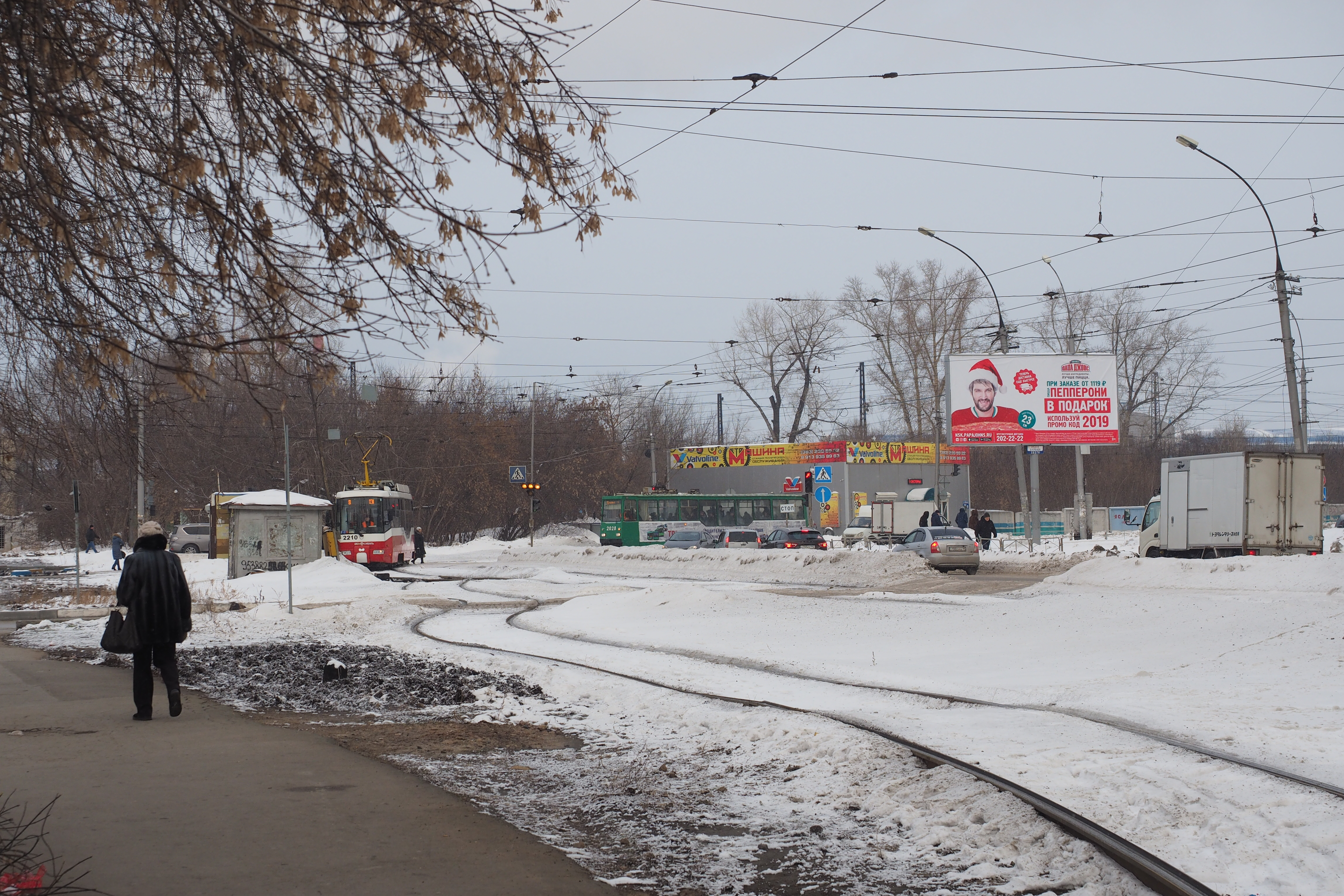 Novosibirsk tram